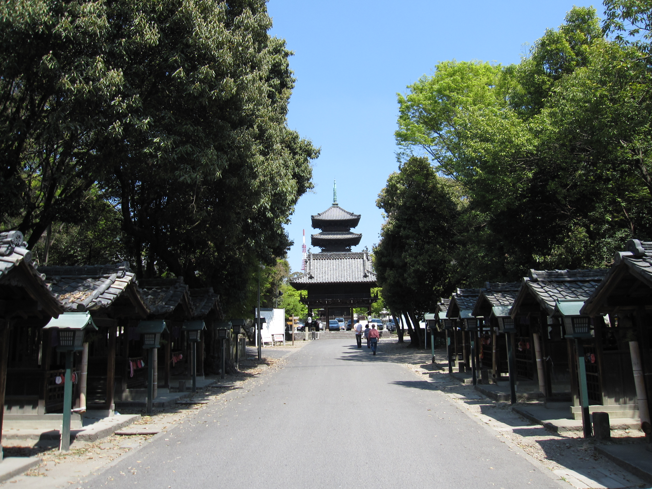 Kōshoji temple in Yagoto, Nagoya.